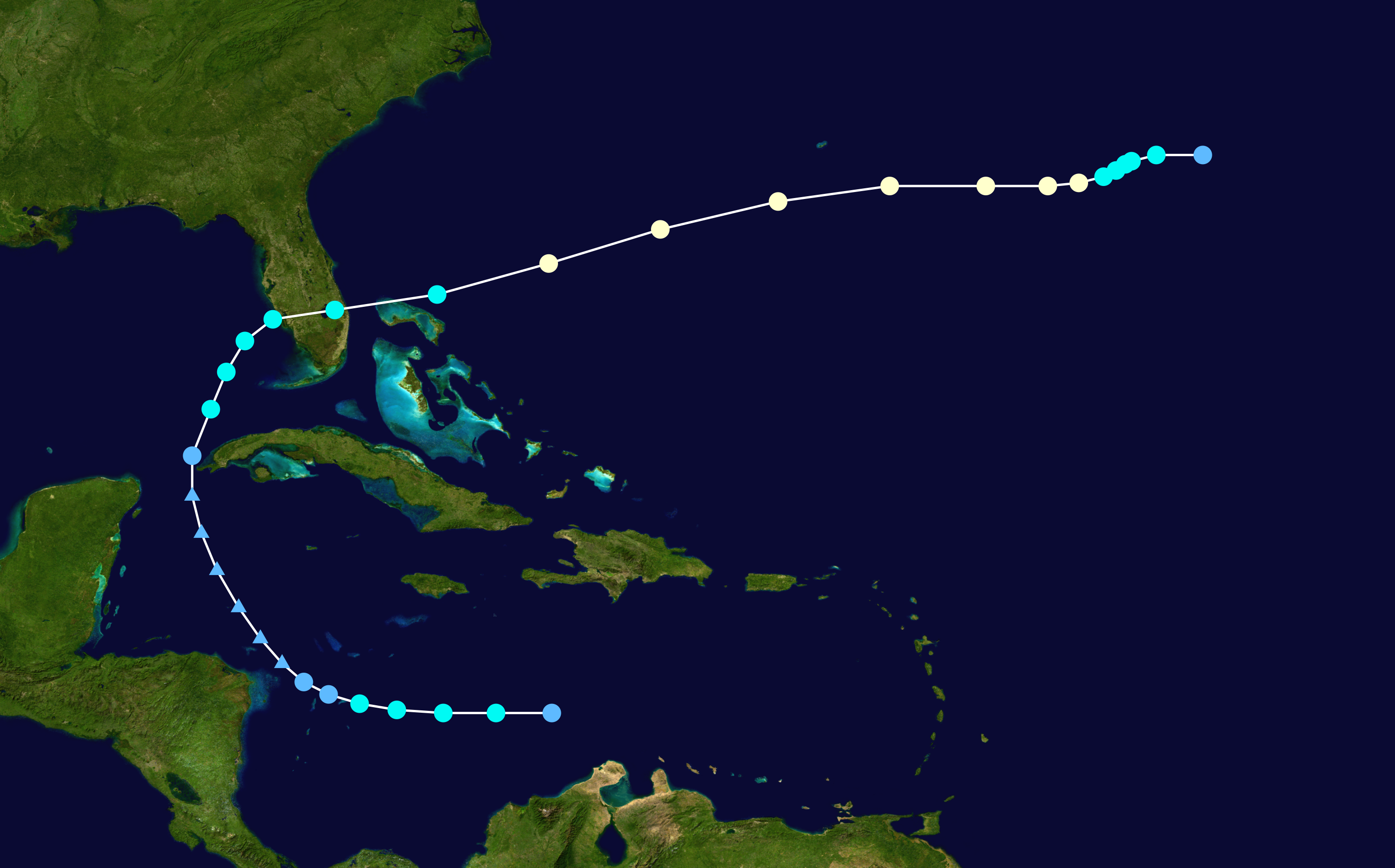 Hurricane Judith (1959) track. Uses the color scheme from the Saffir-Simpson Hurricane Scale.